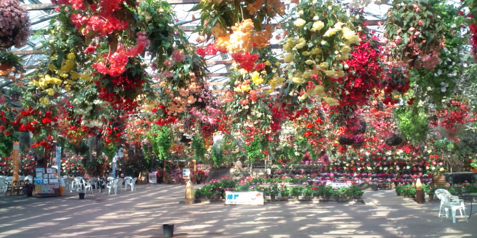 Center house in Matsue Vogel Park